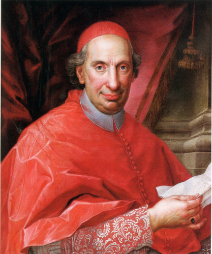 Portrait of Antonio Banchieri, cardinal secretary of state